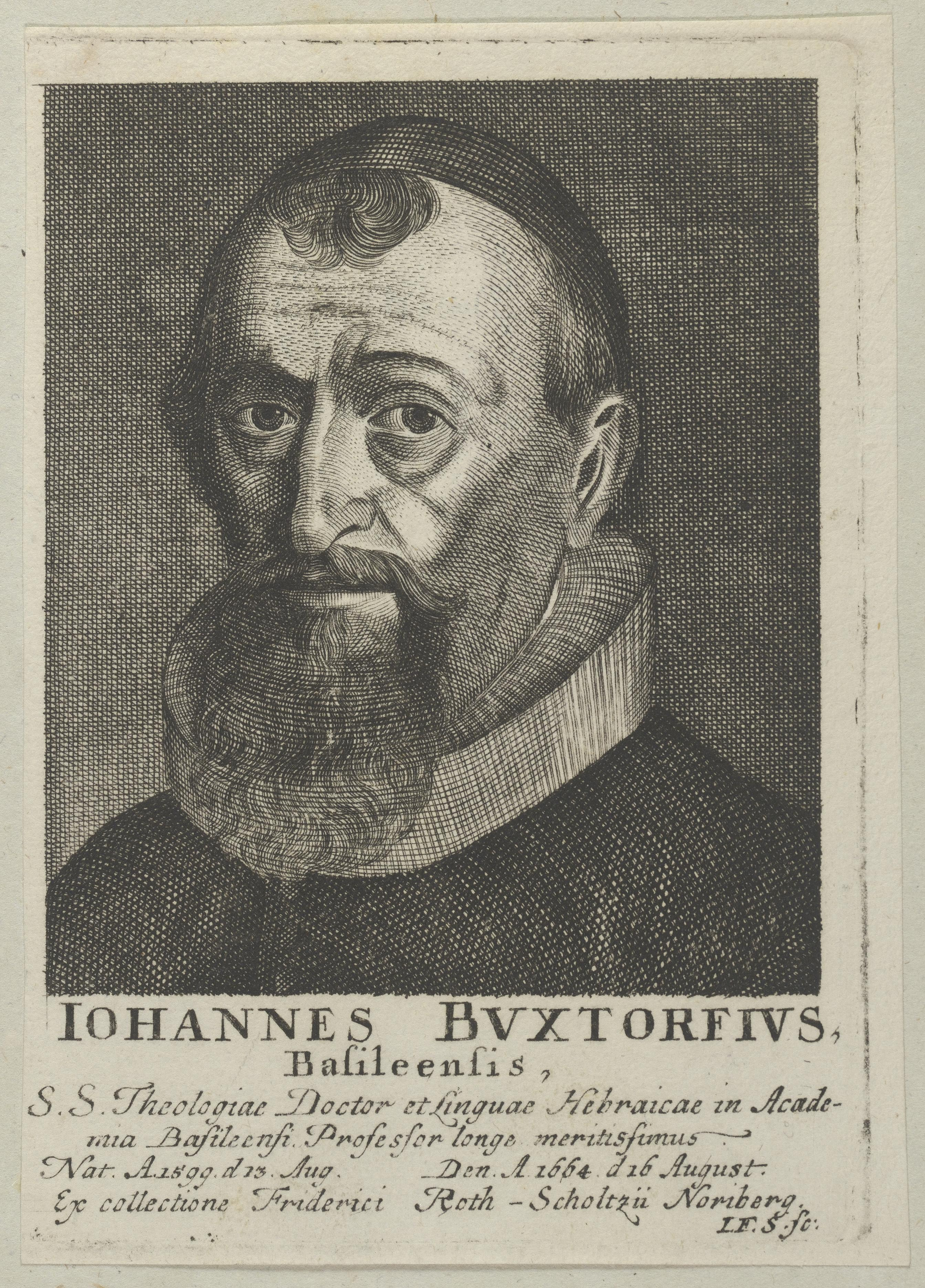 Portrait of Johannes Buxtorf II